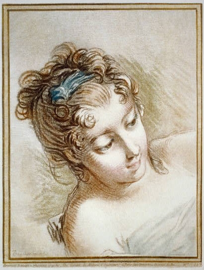 Head of a woman by French engraver Gilles Demarteau (1729-1776) after François Boucher (1703-1770). Crayon manner print.